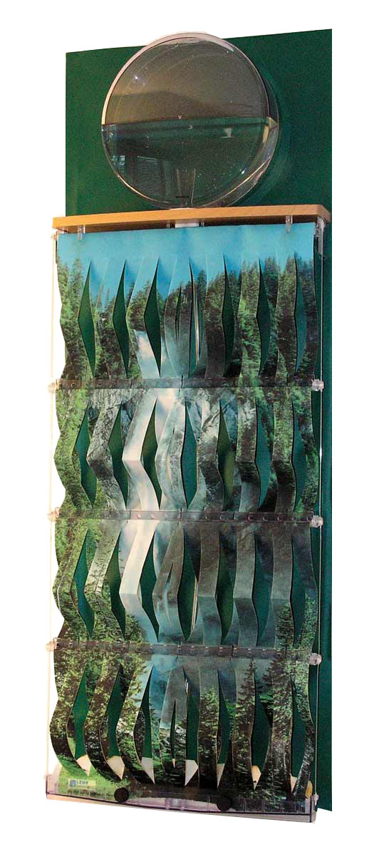 shows a humidifier with hydropneumatic capillary system, covered with a panel design "waterfall"